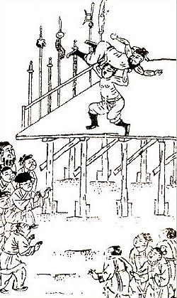 A fighter throwing another man out of the platform.